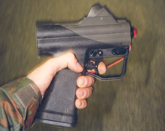 This is the P11 ("Underwater Gun") from Heckler & Koch with a test device attached.